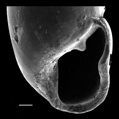 SEM image of aperture of paratype of Gulella streptostelopsis. Scale bar is in 0.1 mm.